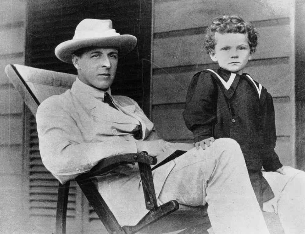 Lord Chelmsford with his youngest son, Andrew, Queensland, 1907. Lord Chelmsford, Queensland Governor from 1905-1909 with his youngest son Andrew Thesiger at the Toowoomba station, Gabbinbar.